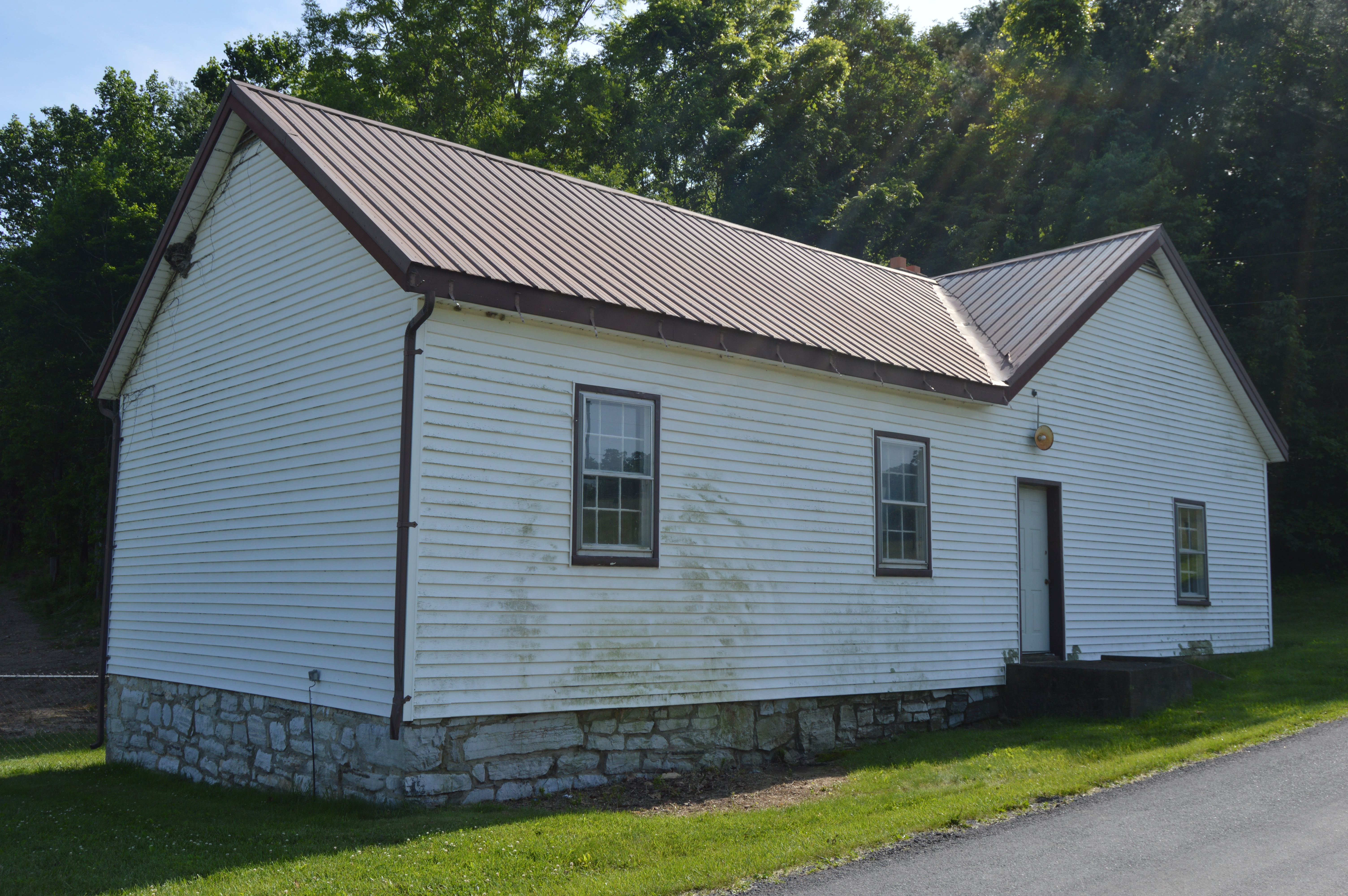 Front and eastern side of the former Moffett's Creek Schoolhouse, located on Mount Hermon Road just west of Newport in Augusta County, Virginia, United States. Built in 1873, it is listed on the National Register of Historic Places.